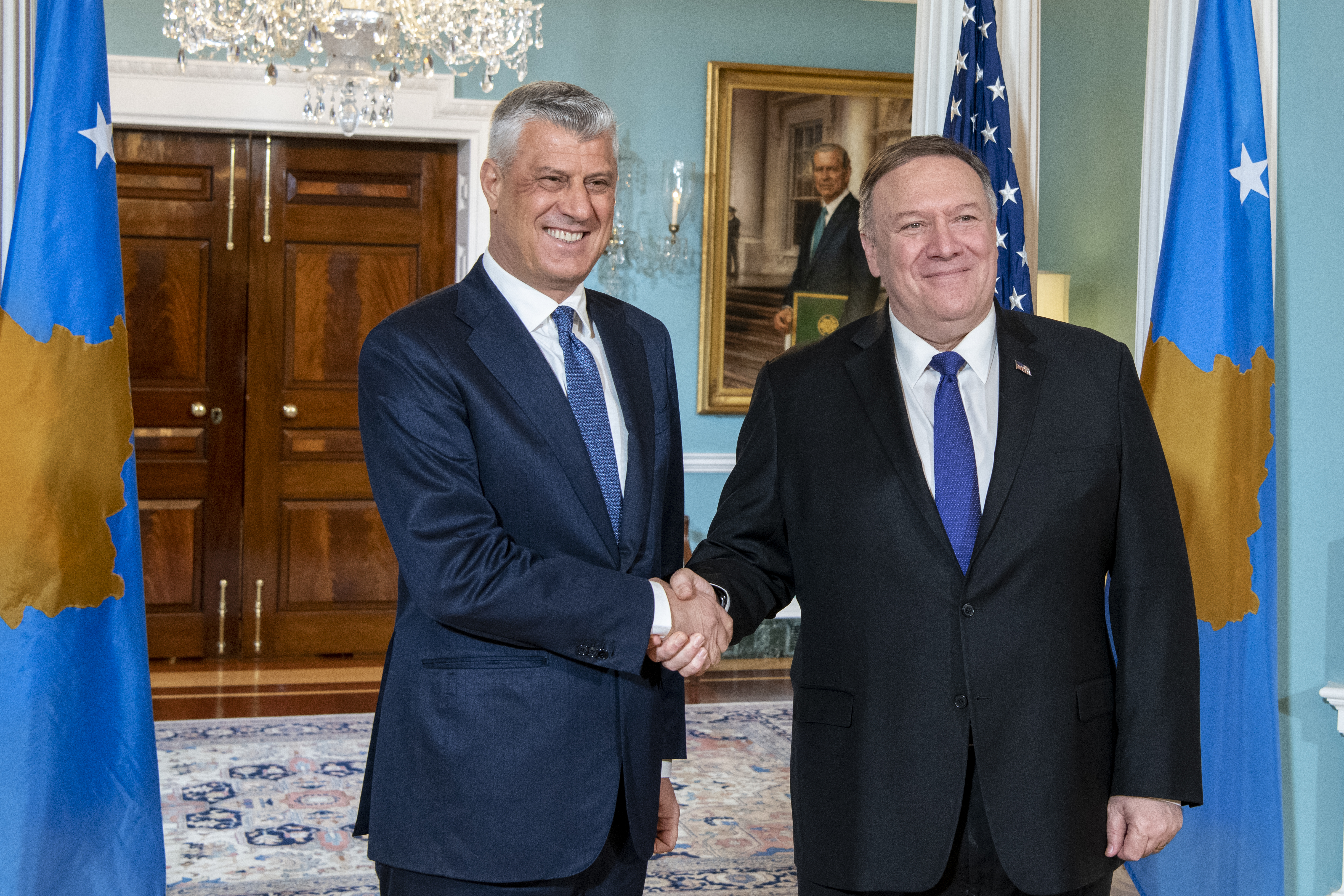 Secretary of State Michael R. Pompeo meets with Kosovo President Hashim Thaci, at the Department of State, on February 26, 2020. [State Department Photo by Freddie Everett/ Public Domain]